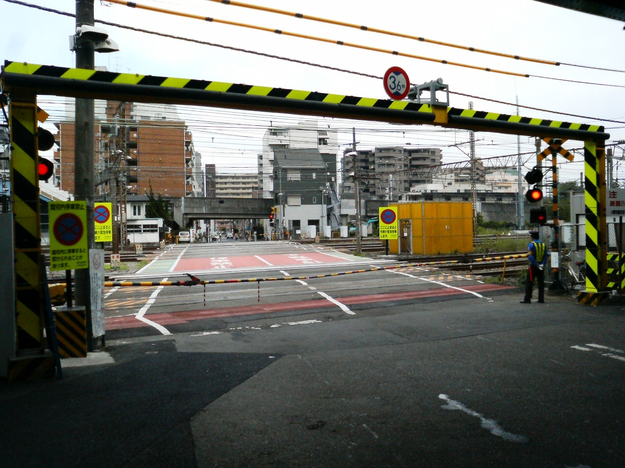 Sojiji level crossing in Tsurumi Yokohama, Japan.